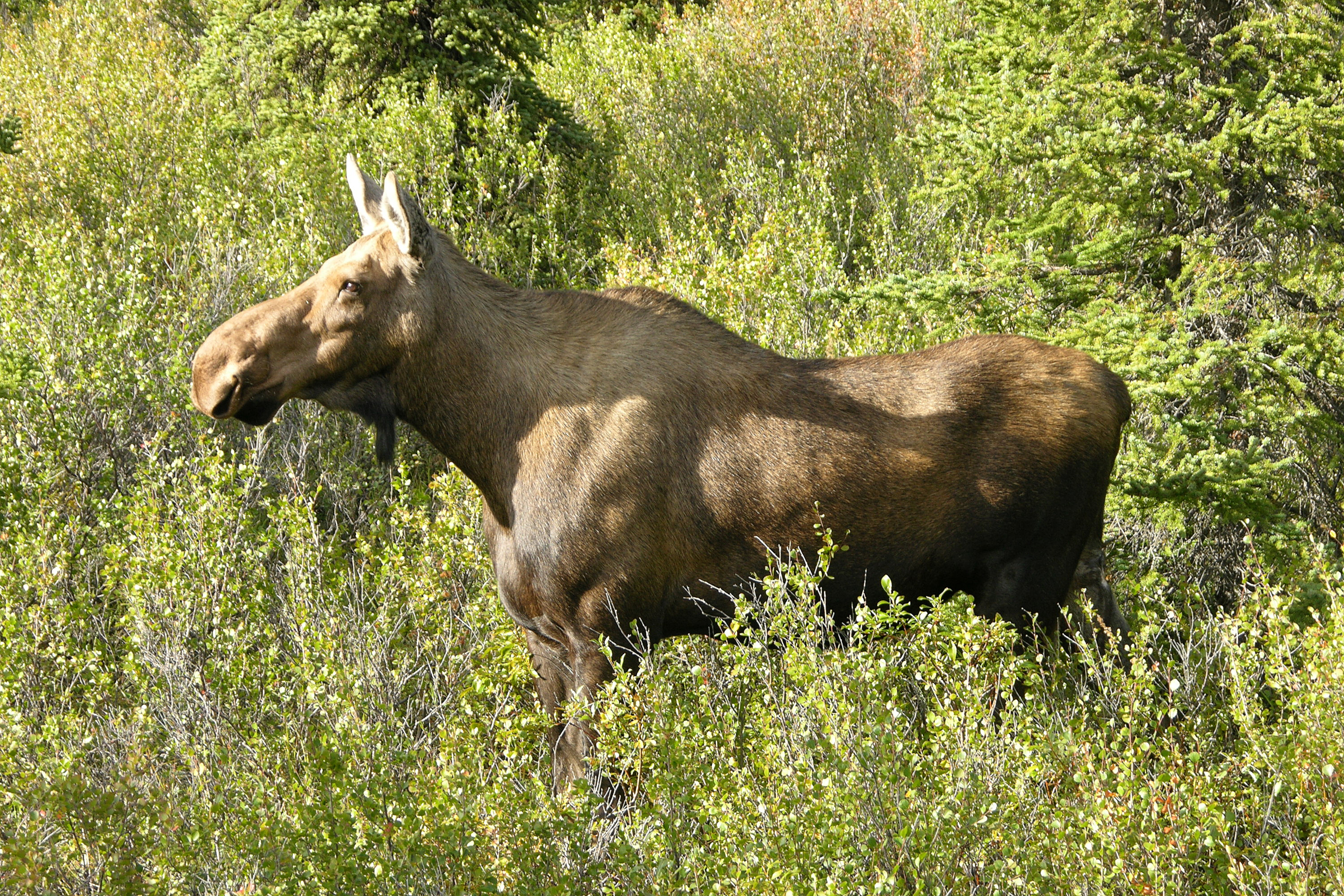 A photograph of a female Moose in Denali National Park and Preserve.